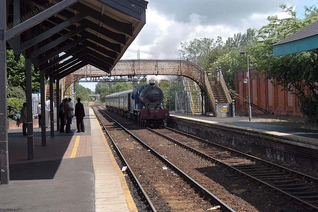 GNR Class V 4-4-0 steam locomotive 85 Merlin on an RPSI excursion train at Ballymoney, Co. Antrim, Northern Ireland.